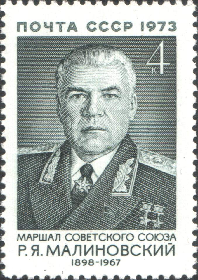 USSR stamp